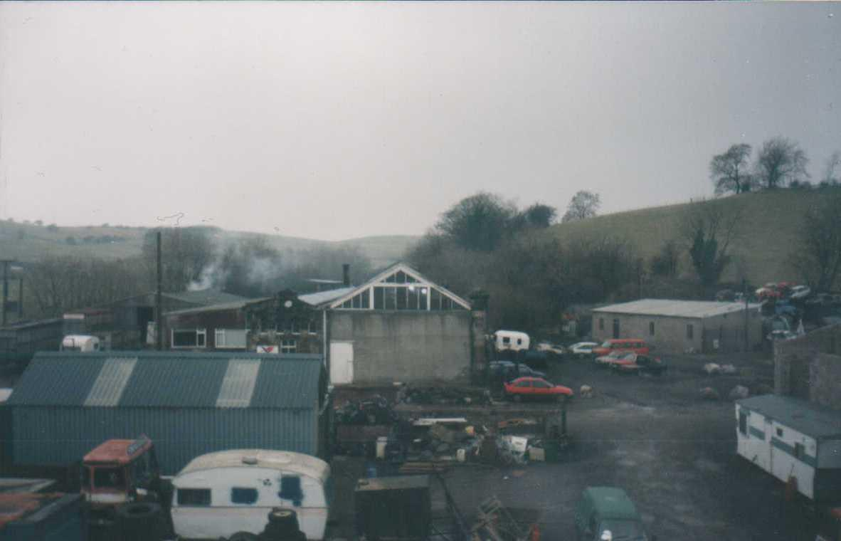 Kirkby Stephen East railway station, 1st February 1997